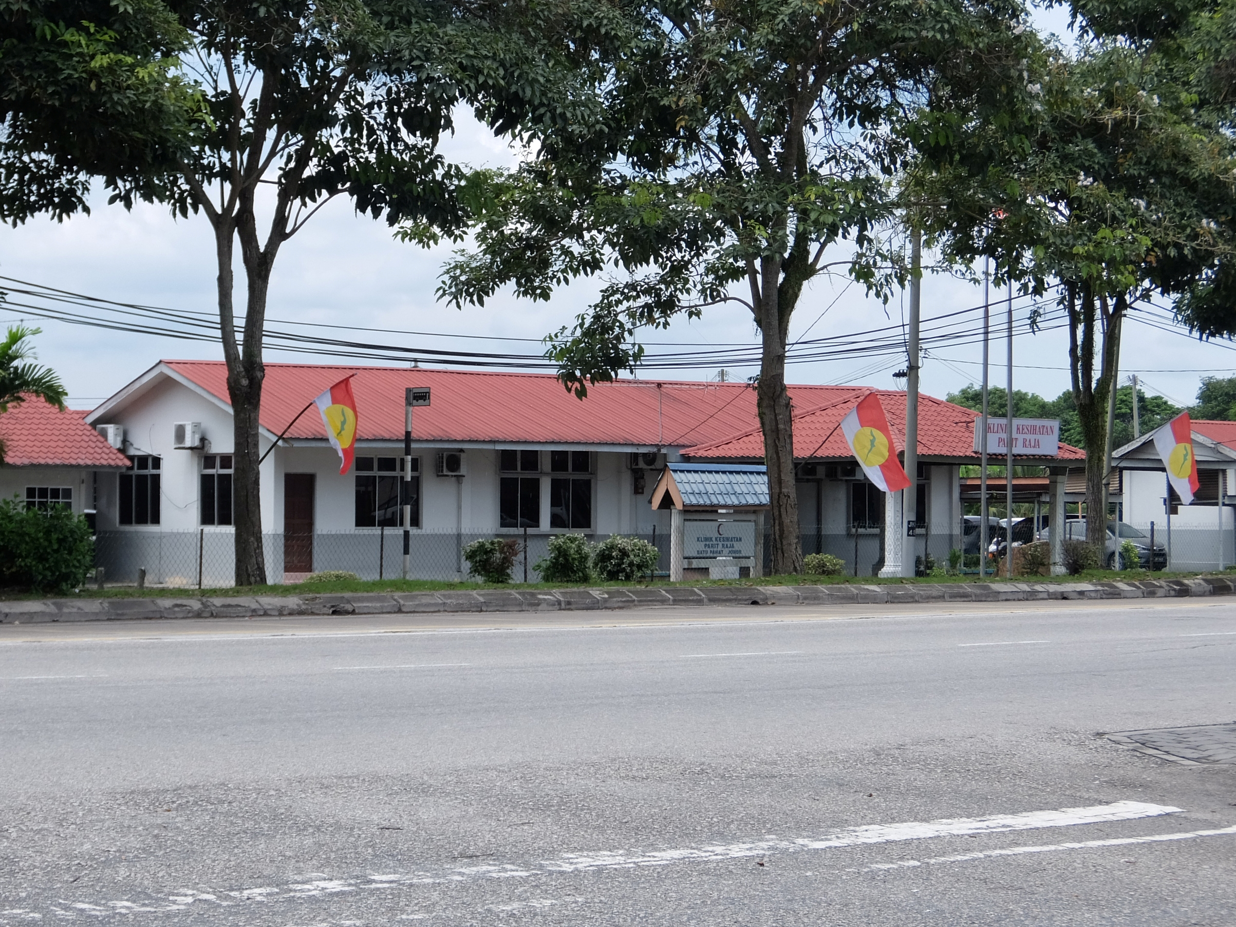 Parit Raja Health Clinic, Parit Raja, Batu Pahat, Johor, Malaysia